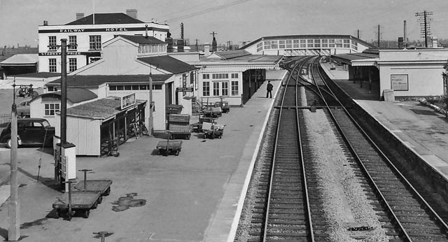 Bridgwater Station. View northward, towards Bristol; ex-GWR Bristol - Taunton - Exeter main line.